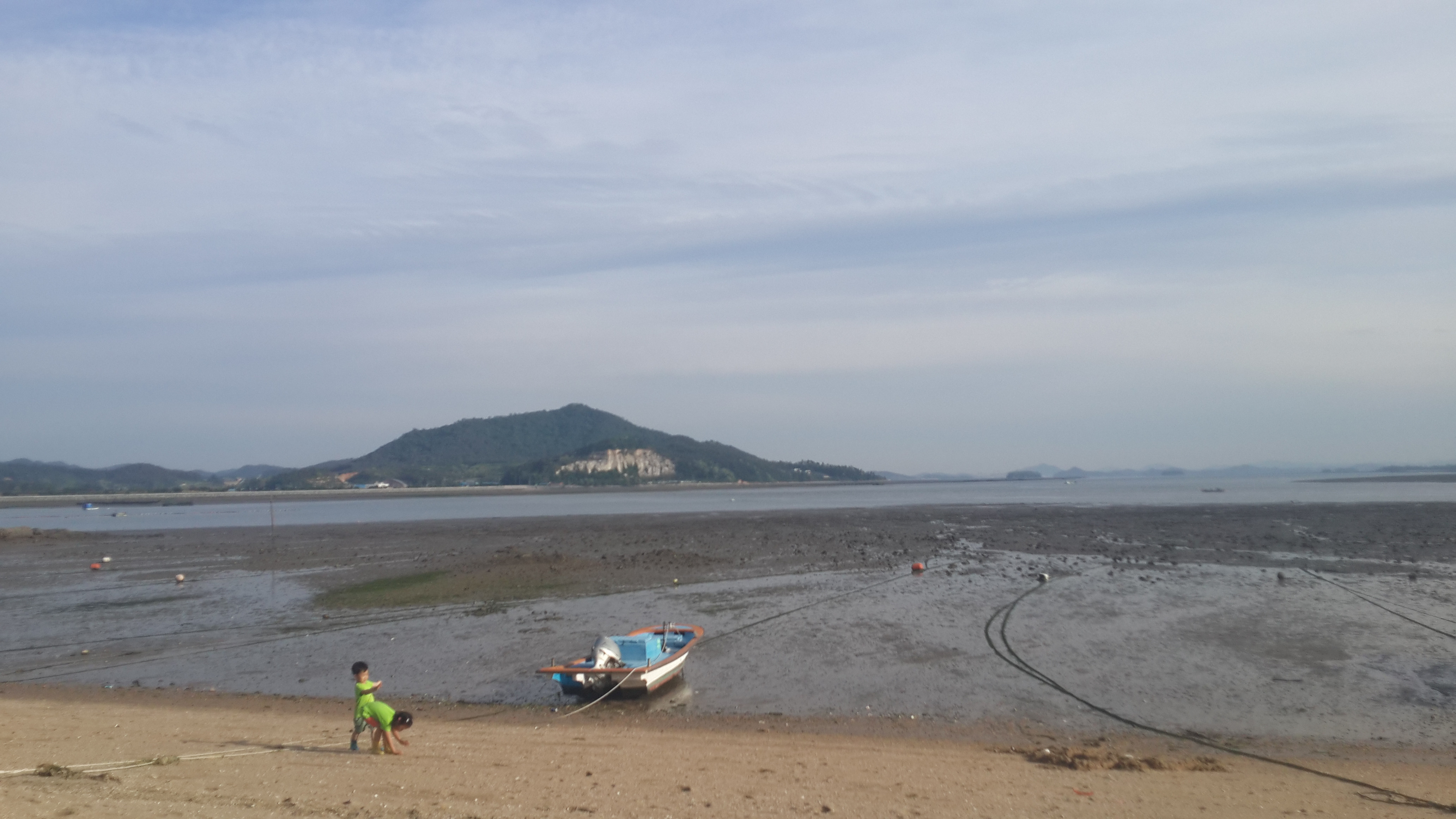 Topmeori seaside beach in Muan county, Jeollanam-do, South Korea.